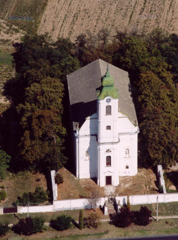 Nagytevel, Hungary, aerialphotgoraphy